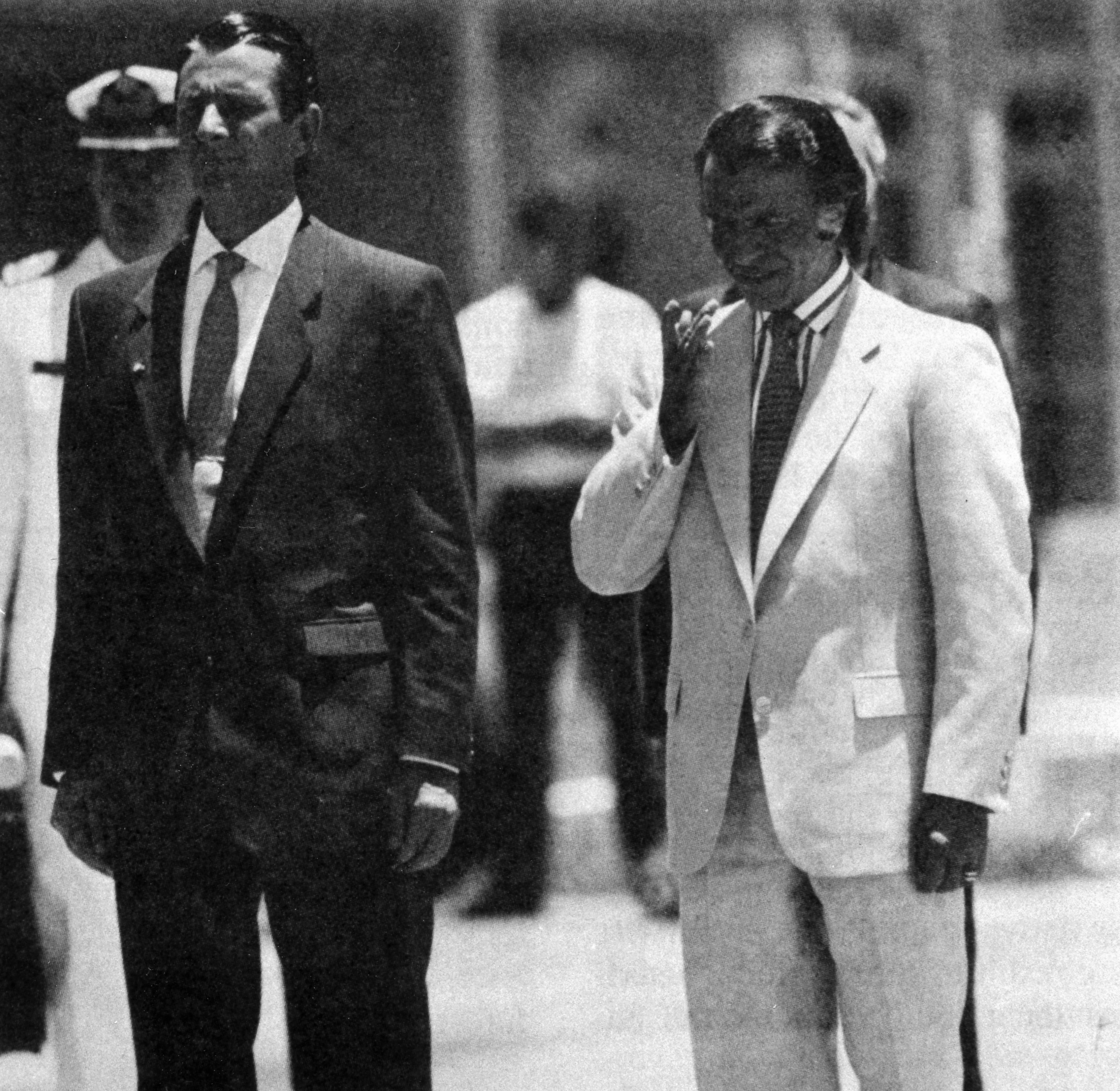 President Fernando Collor of Brazil (left) and President Carlos Saul Menem of Argentina at the Signing of the Argentine-Brazilian Declaration on Common Nuclear Policy at Foz do Iguacu, Brazil on 28 November 1990. Photo Credit: IAEA